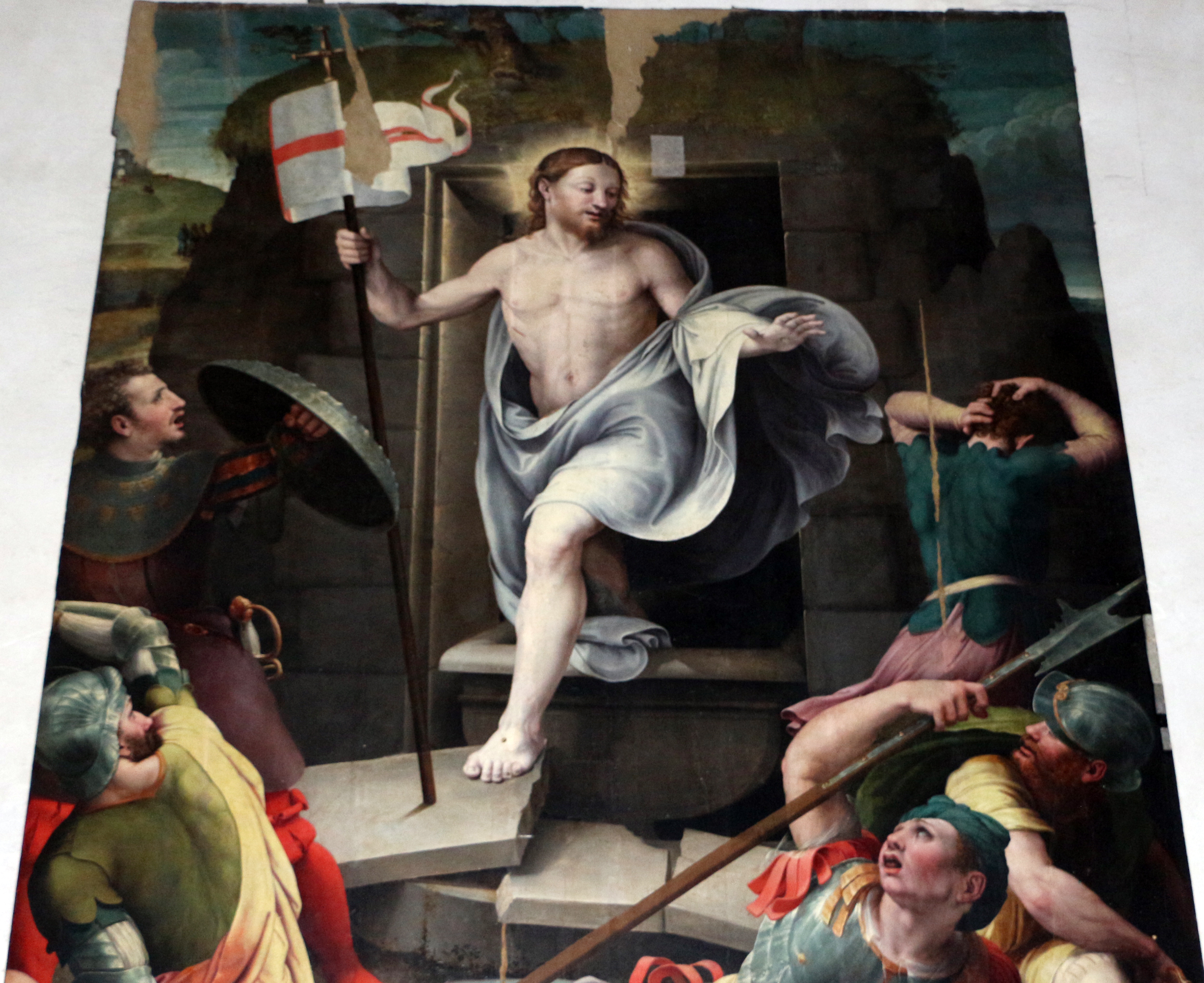 Duomo (Sansepolcro)